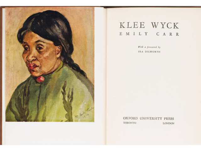 Titlepage and Frontispiece of Klee Wyck